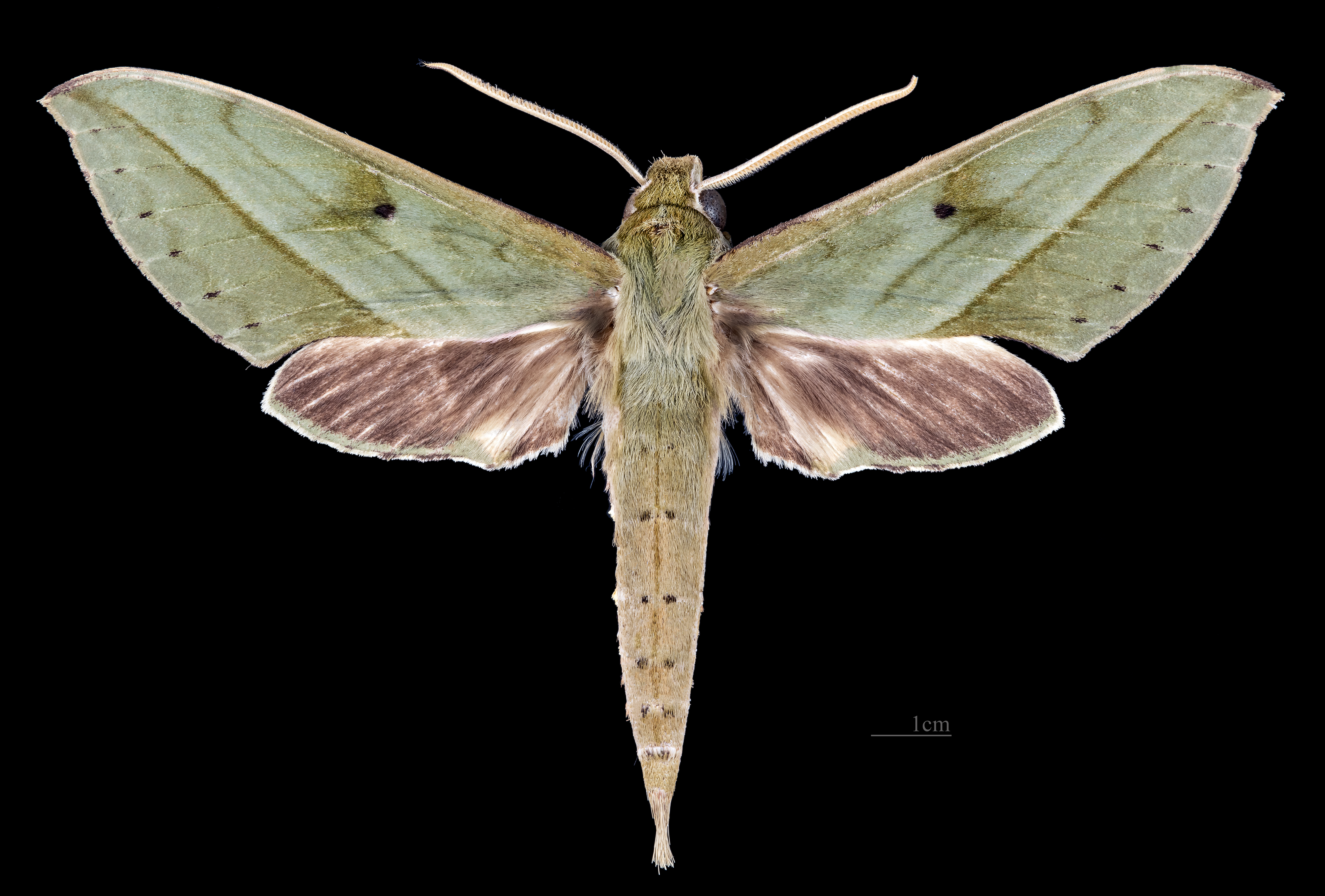 Xylophanes fassli - Dorsal side Collection of the Mathematician Laurent Schwartz